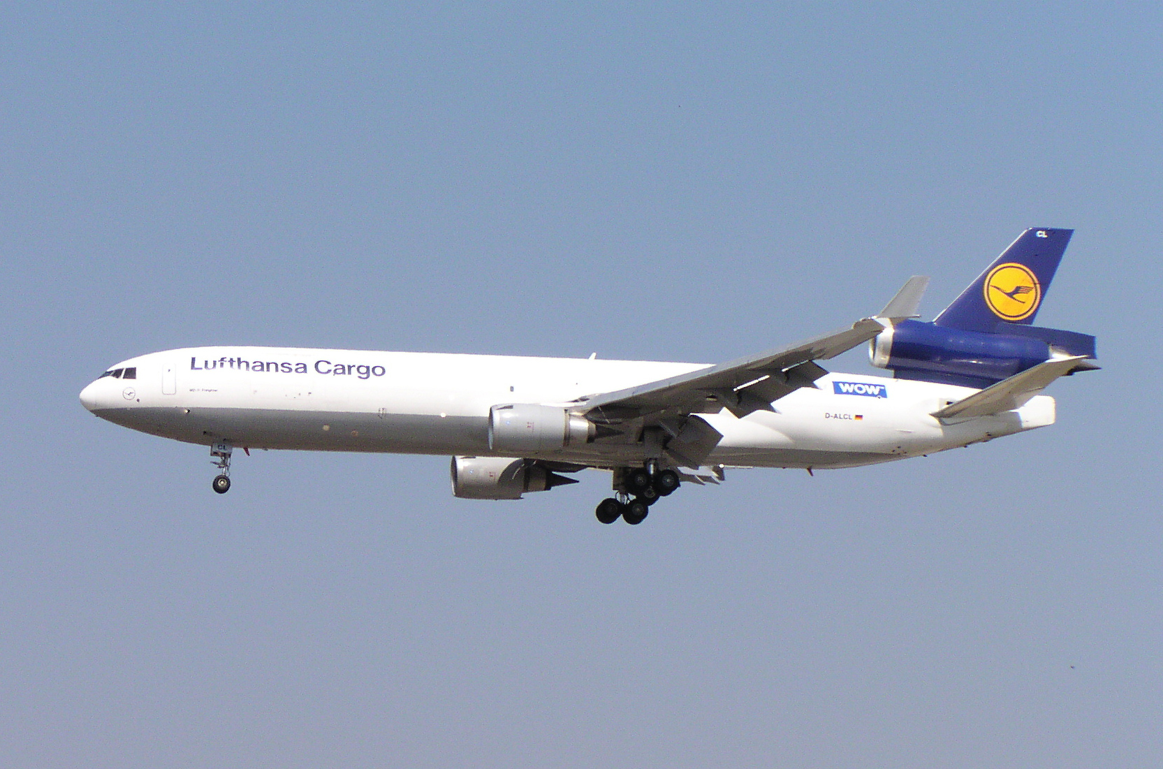 Lufthansa Cargo MD-11F in Frankfurt, April 2003.